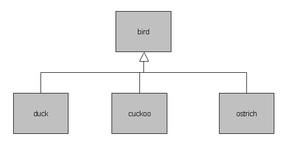 diagram showing an example of inheritance - birds